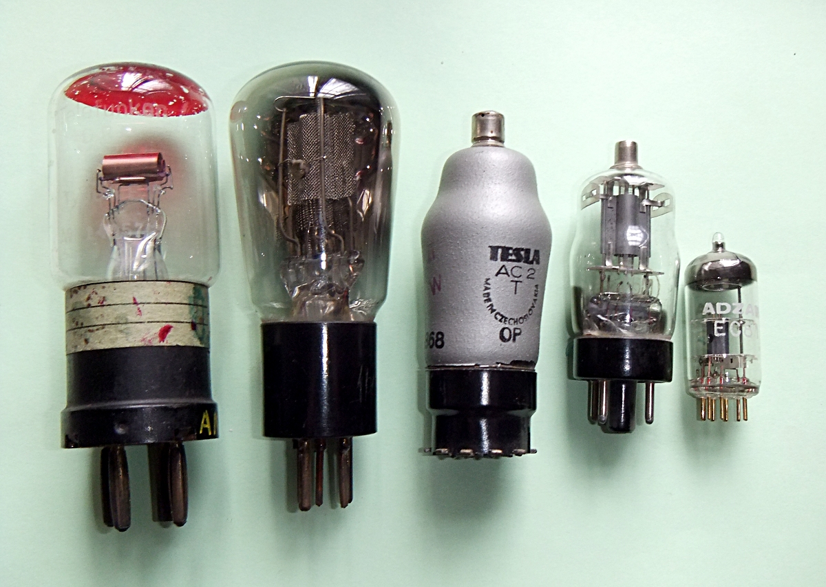 Various triode vacuum tubes in chronological order: RE16 (dated Jul 1918), REN1004, AC2, 6F5M, EC81.